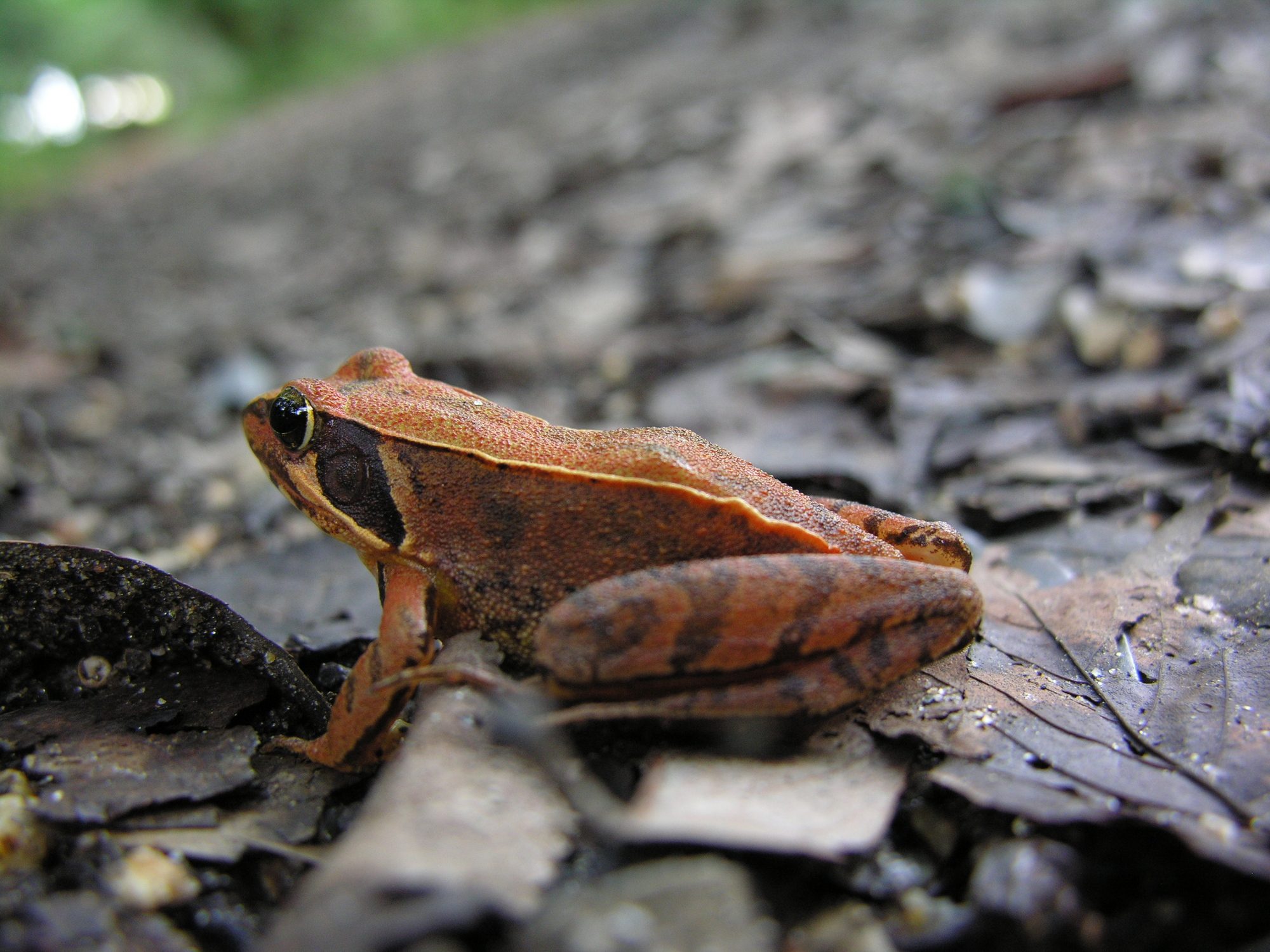 Japanese brown frog